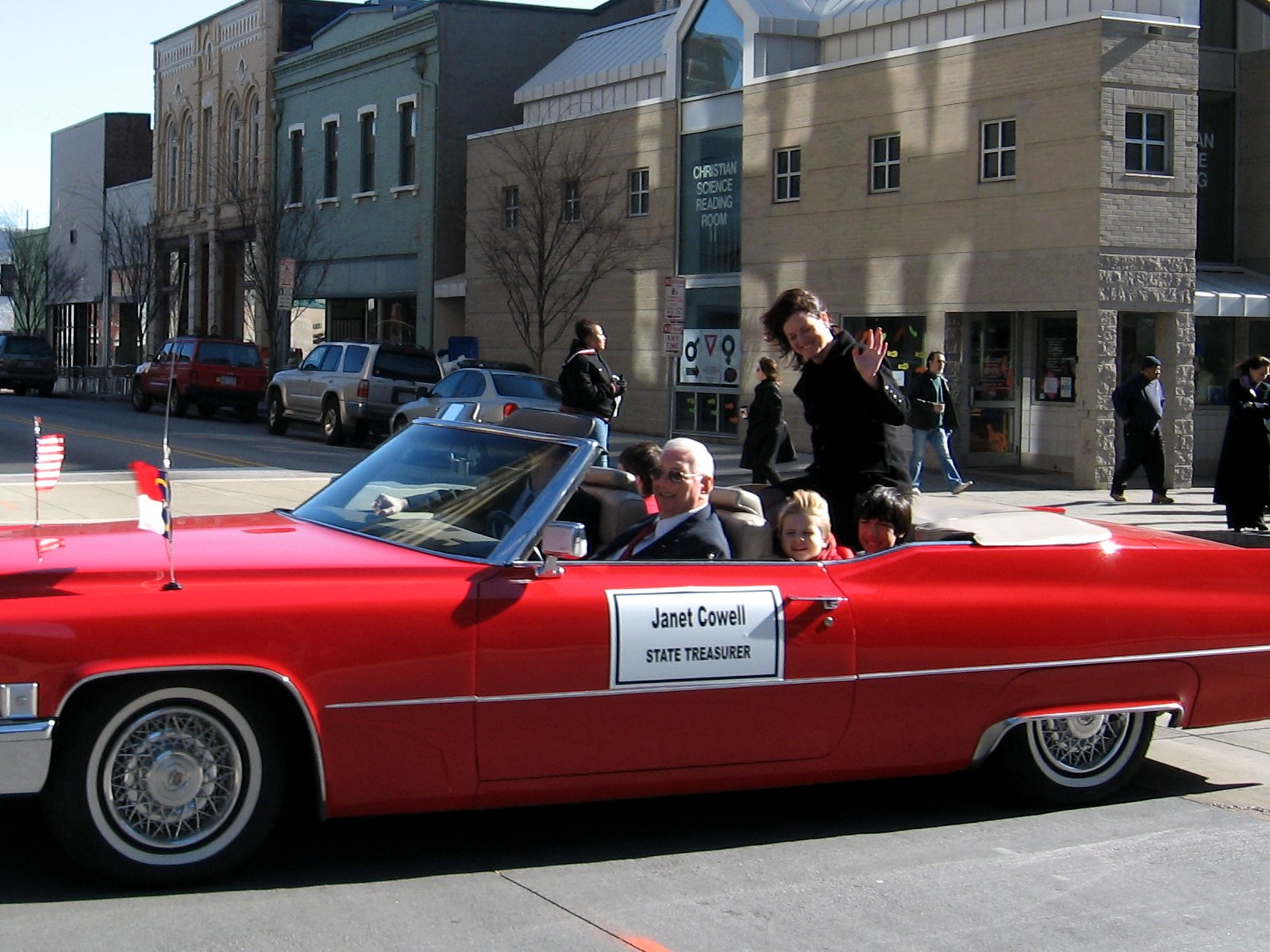 Janet Cowell, the new state treasurer